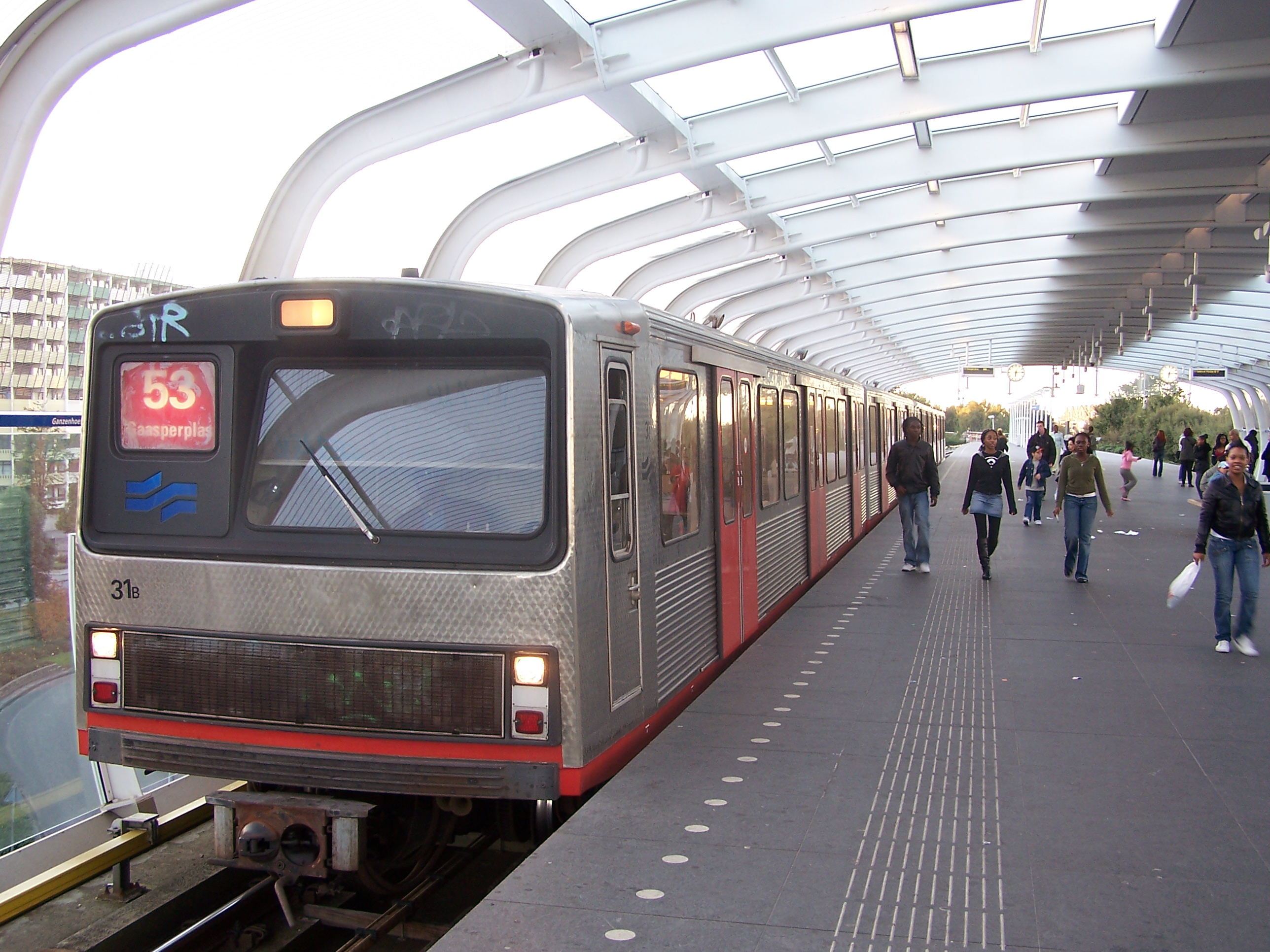 This picture shows the metro station Ganzenhoef in Amsterdam, in the Netherlands Author:Mig de Jong, Oktober 2005